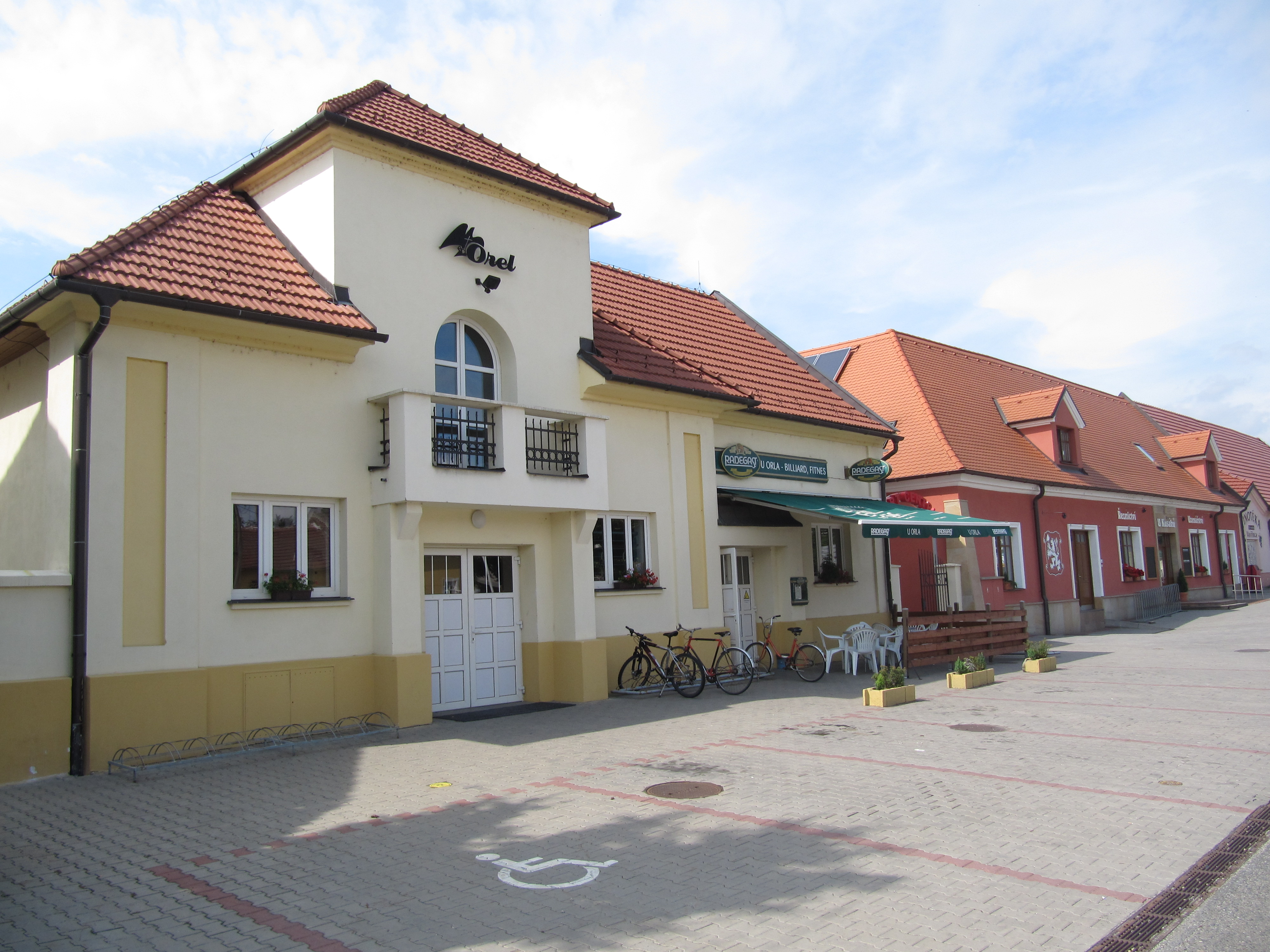 Ostrožská Nová Ves in Uherské Hradiště District, Czech Republic. Orel hall.